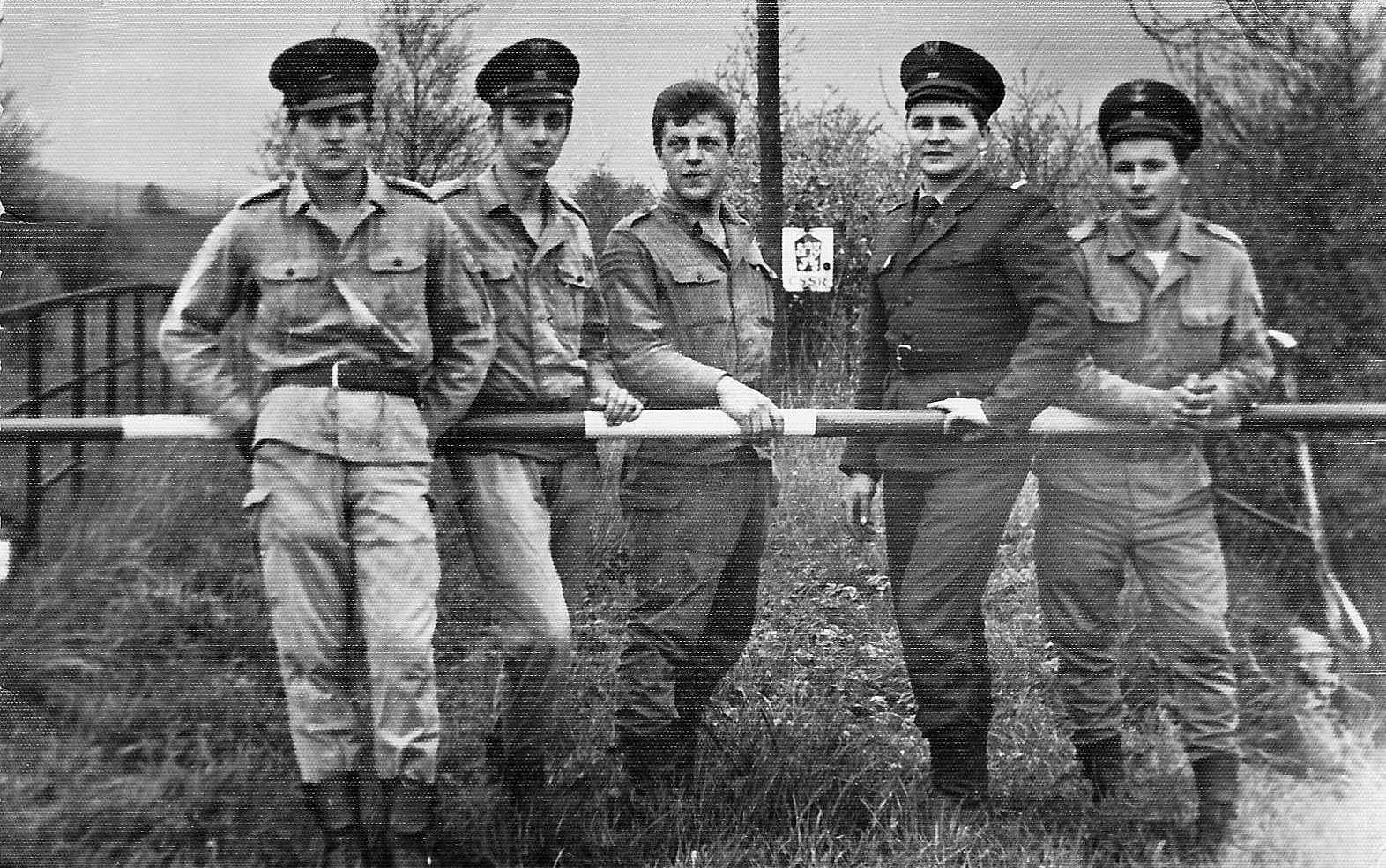 Border Protection Forces in Równe